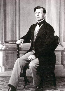 Finnish doctor and politician Wolmar Styrbjörn Schildt (1810–1893)